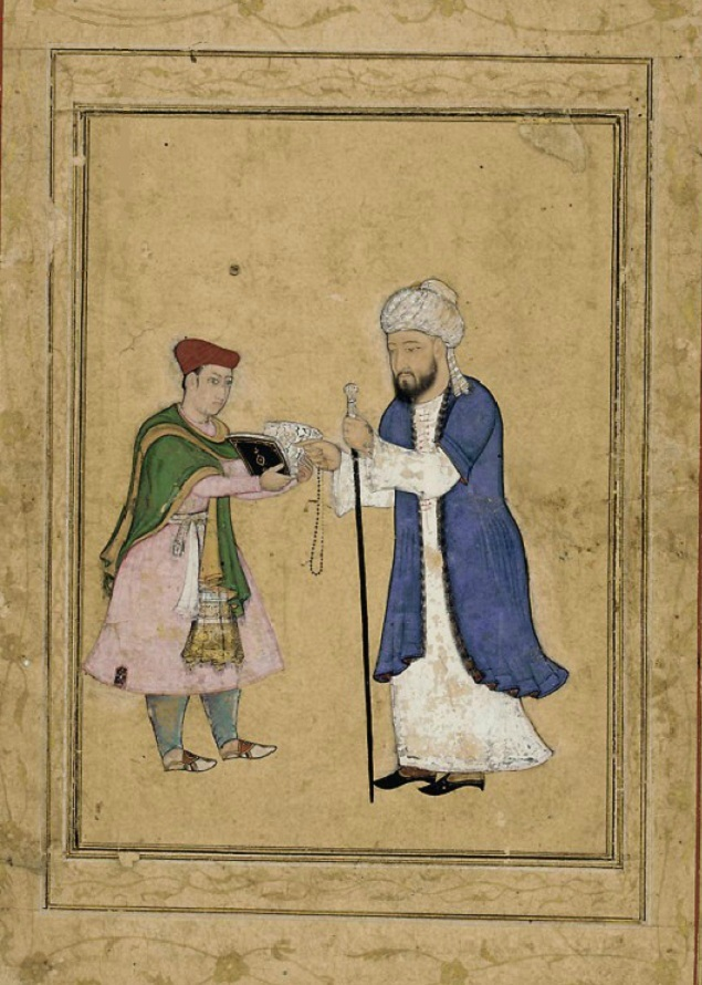 KHWAJA HAFIZ RECITES HIS POETRY, Mughal, c.1600, Christie's